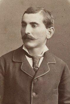 Portrait of the Occitan explorer Marius Mostier